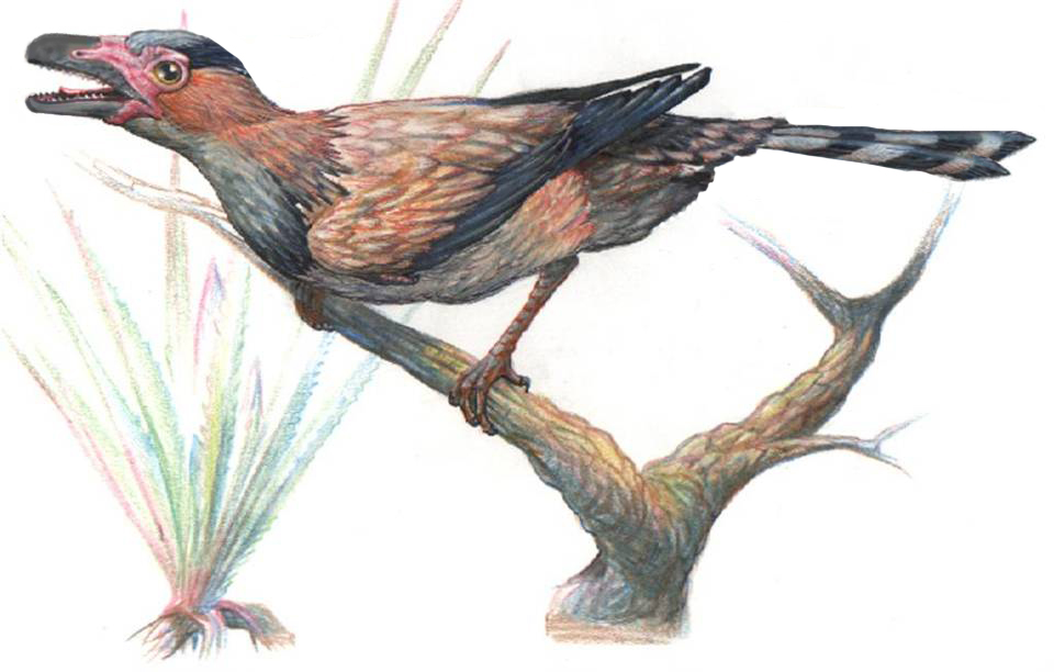 Sinornis.